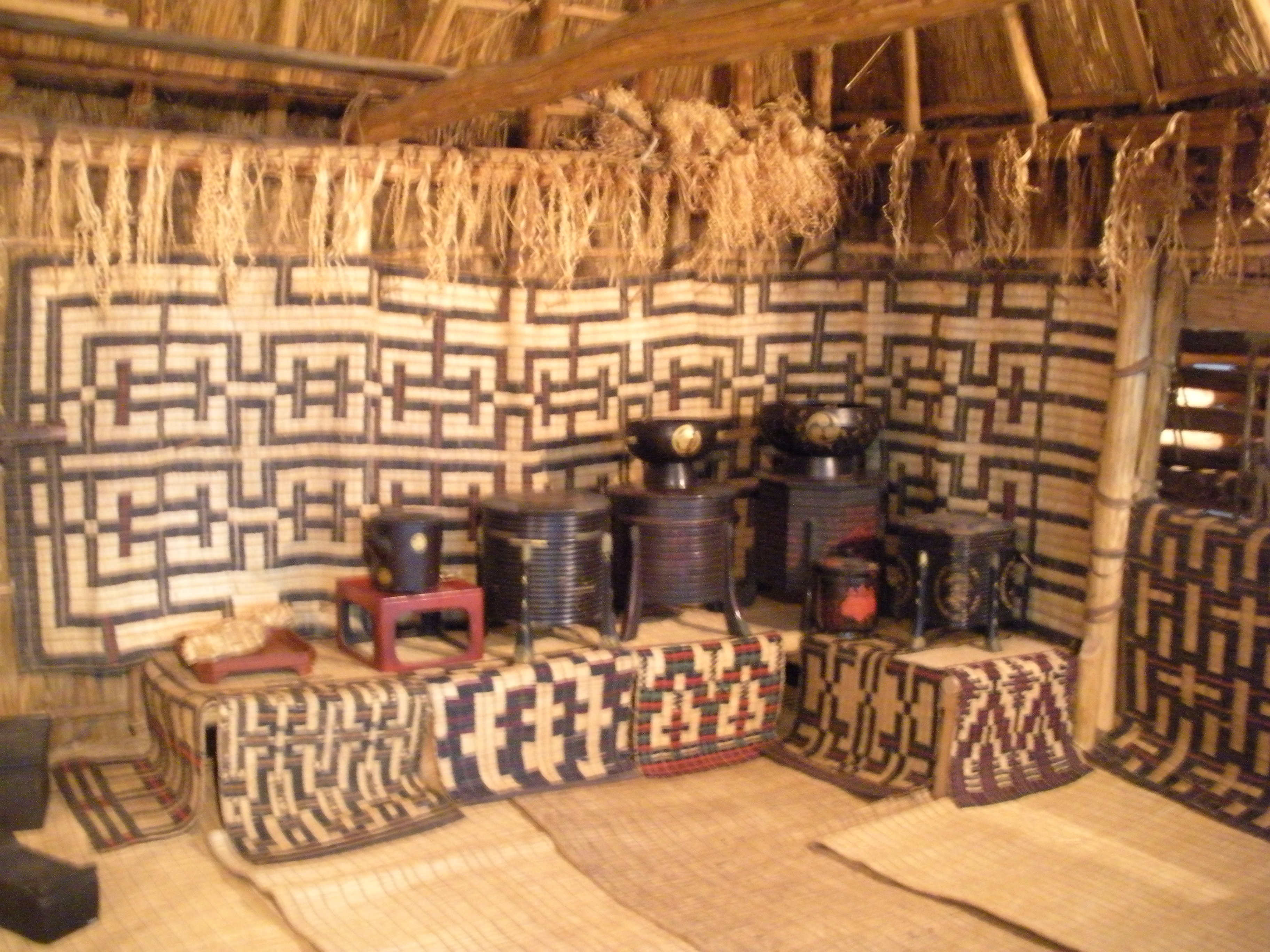 Japan Hokkaido Ainu traditional house”cise” Lacquer ware